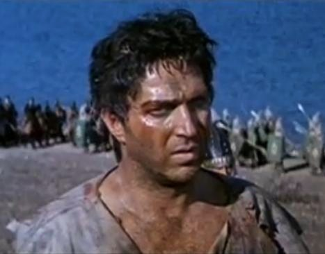 John Crawford in The 300 Spartans - trailer (cropped screenshot)